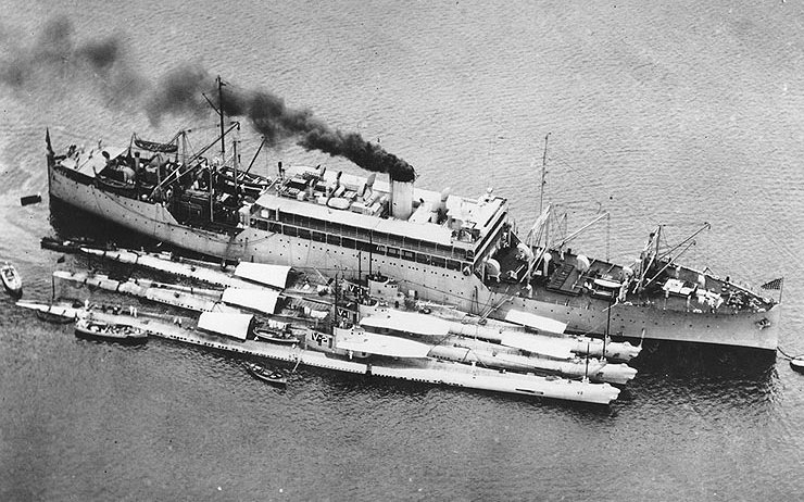 The U.S. Navy submarine tender USS Argonne (AS-10) in Panama waters, 1927-1928, while en route to join the Battle Fleet. The submarines alongside her are (from outboard to inboard): V-2 (SF-5), later renamed USS Bass (SS-164), V-1 (SF-4), later renamed USS Barracuda (SS-163) and V-3 (SF-6), later renamed USS Bonita (SS-165).